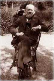 Carl August Sonnewald, the owner of the J.J. Heckenhauer second-hand book shop in Tübingen, Germany